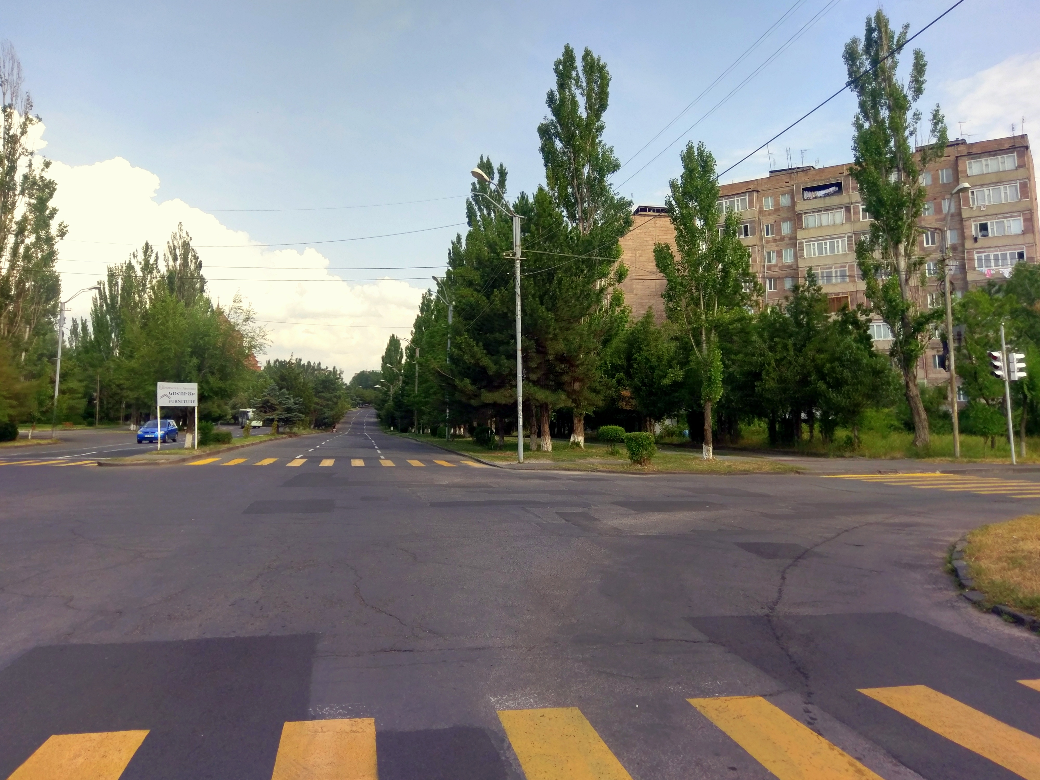 Rossiya street in Abovyan, Armenia.